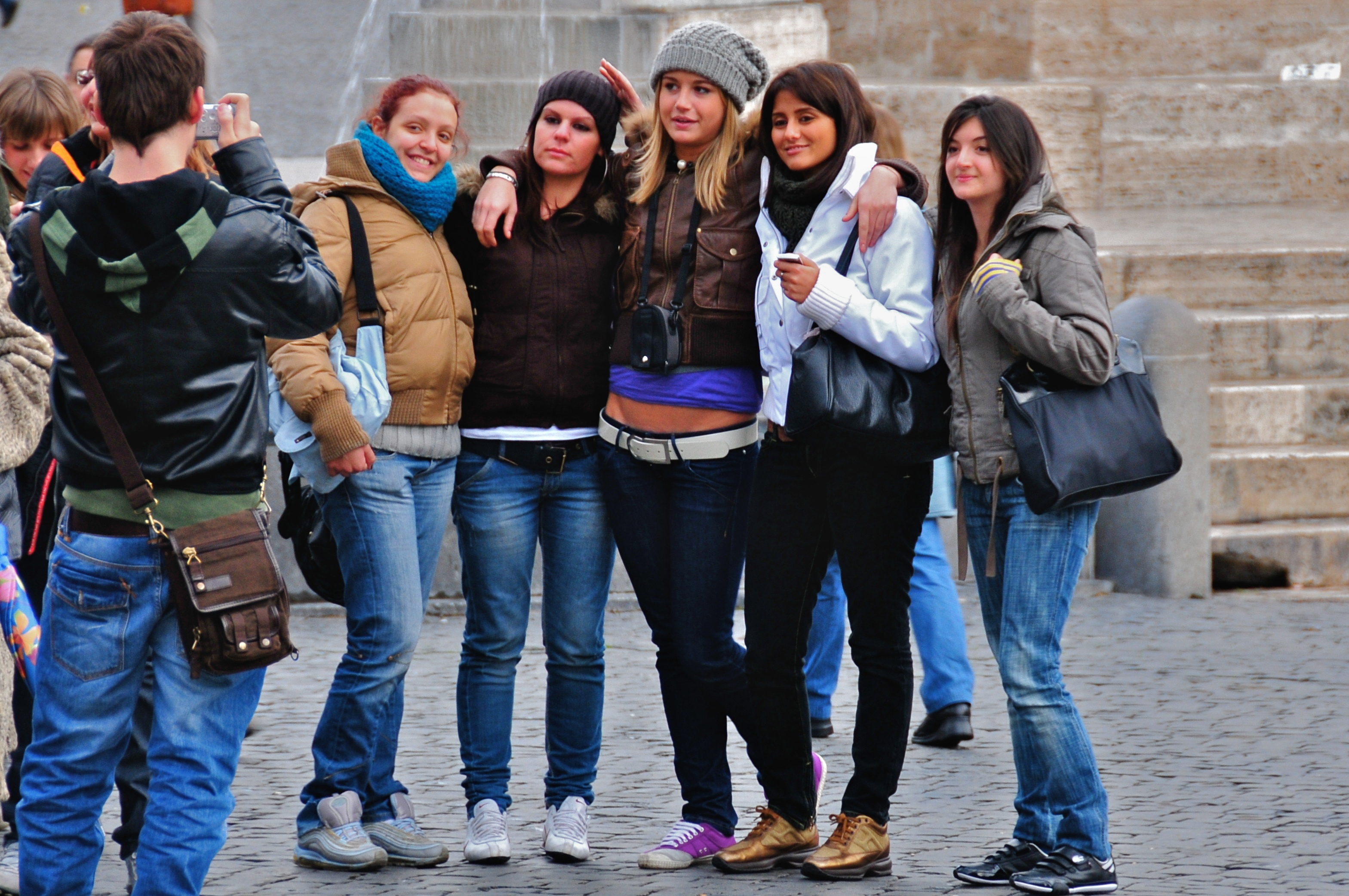 A group of young people at Piazza del Popolo, Rome.